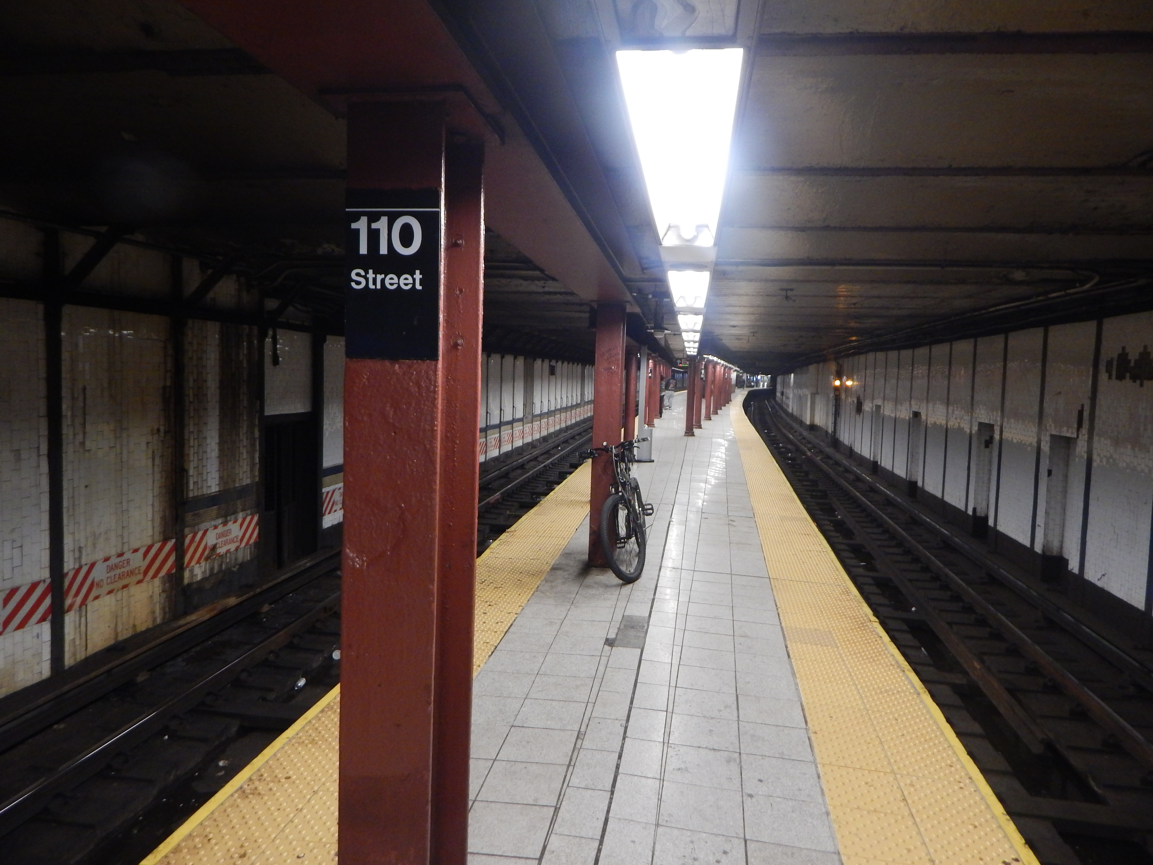 110th Street-Central park North station on the 2/3.